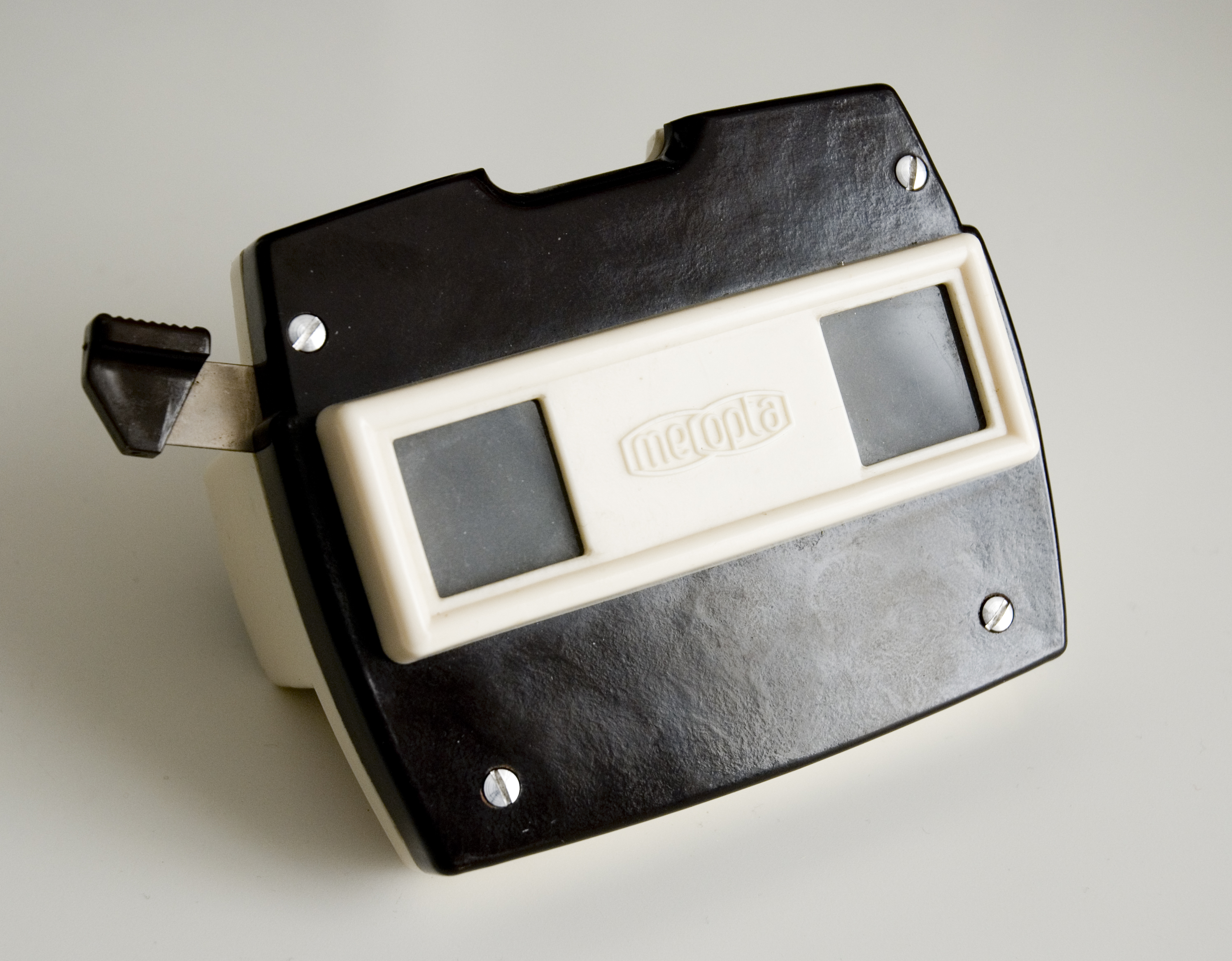 Meoskop II stereo viewer made by Meopta